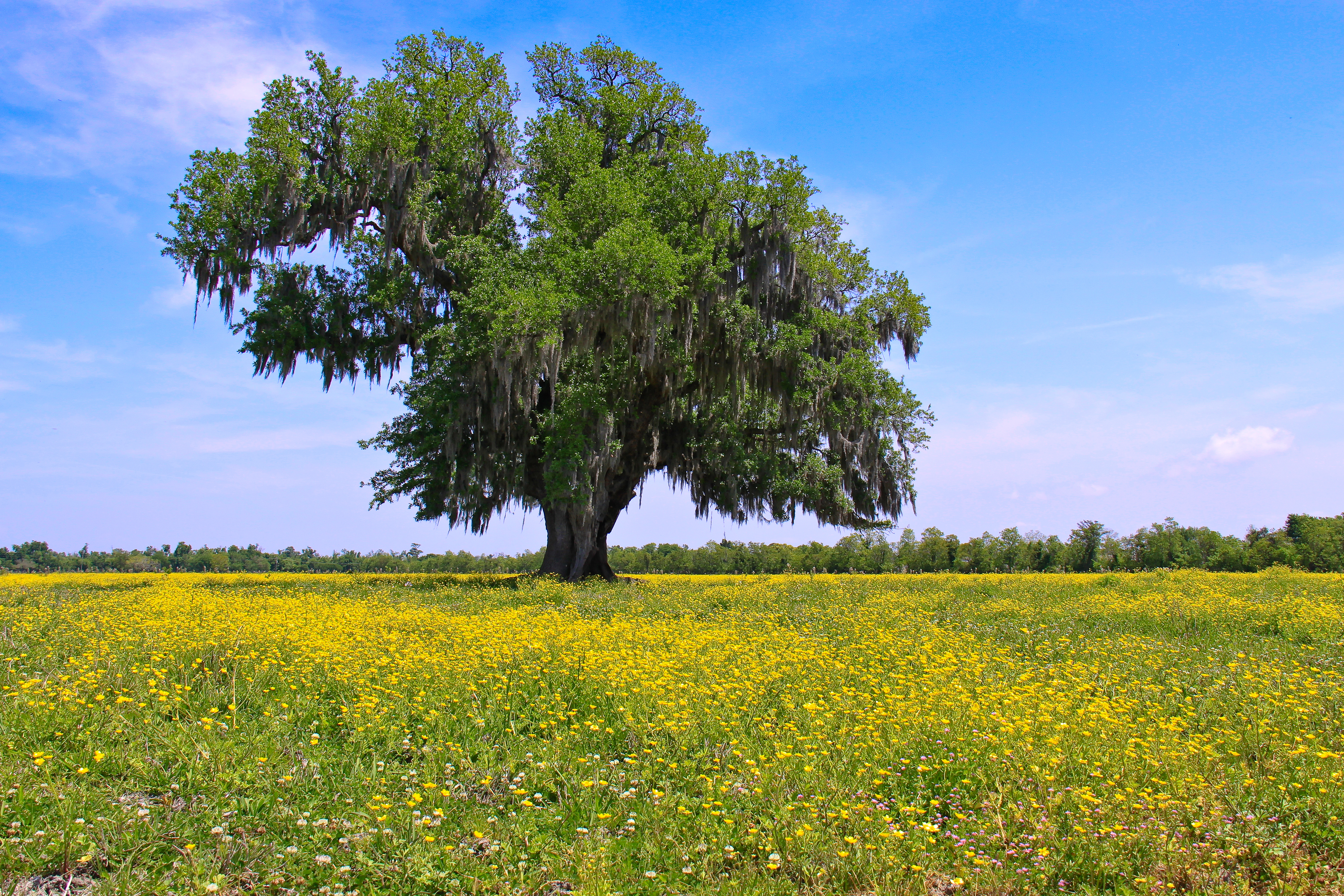 Oak tree all by itself in a field of yellow wildflowers near Violet, Louisiana